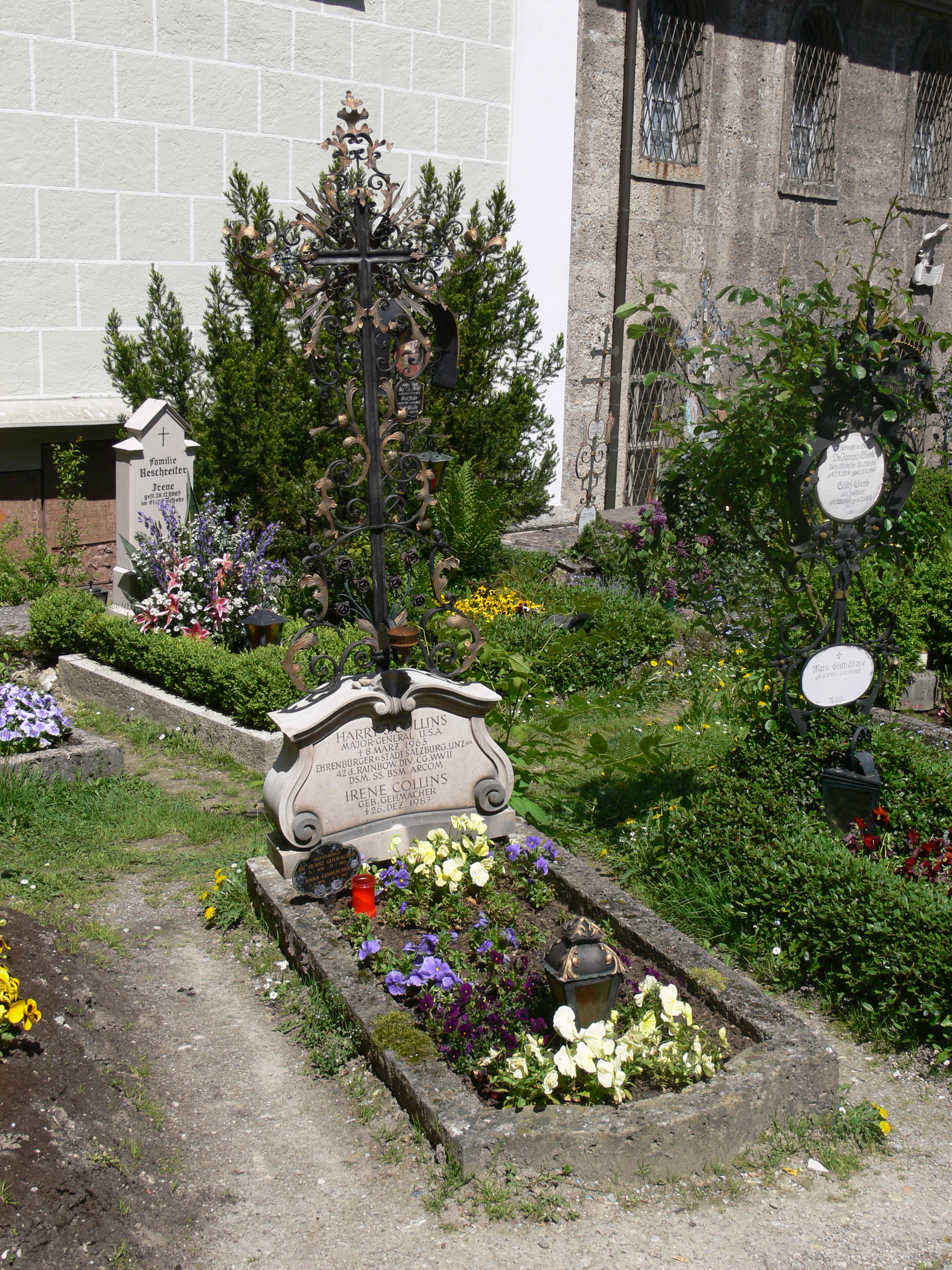 Petersfriedhof Salzburg Grabmal Harry J. Collins